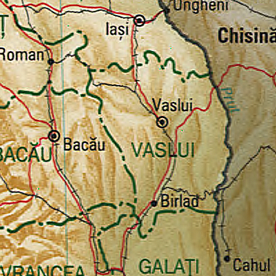 Map of Vaslui County, Romania.